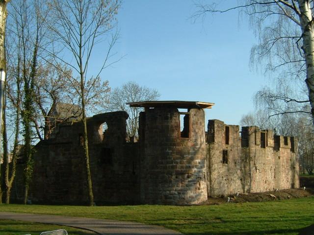 Bad Vilbel, town in Hesse. Here:View of the ancient water-castle